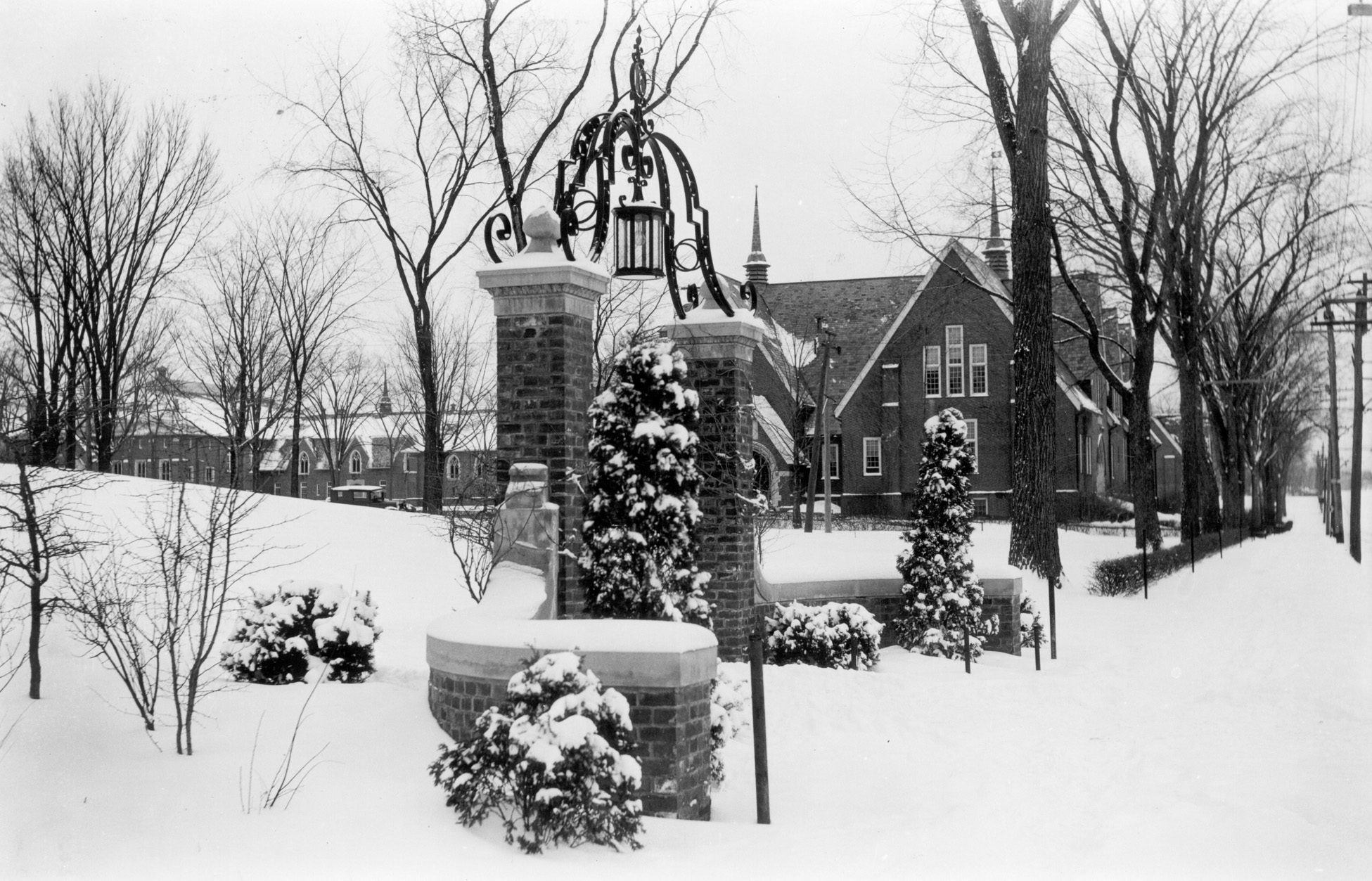 Bates College's Garnet Gateway in 1906